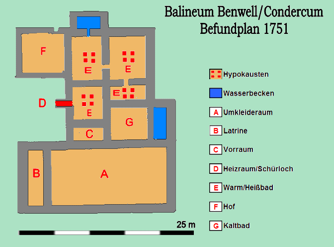 Groundplan roman Bathouse in Benwell/Condercum, 1751.